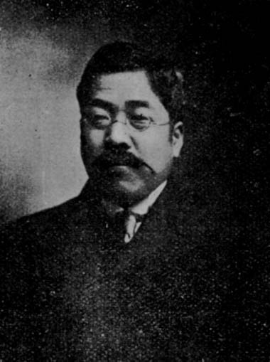 Mr. Tsutae Matsumura, director of the Nara Prefectural Unebi Middle School.